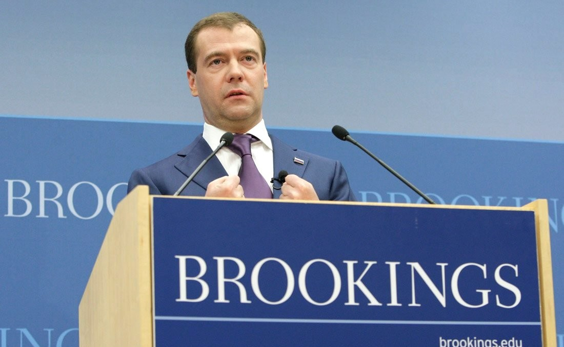 At a meeting with representatives of US public, academic and political circles.